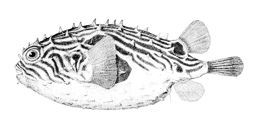 The swell-fish or burr-fish, Chilomycterus geometricus. The specimen #14825, U. S. National Museum, at Noank, Conn., by U. S. Fish Commission in 1874.